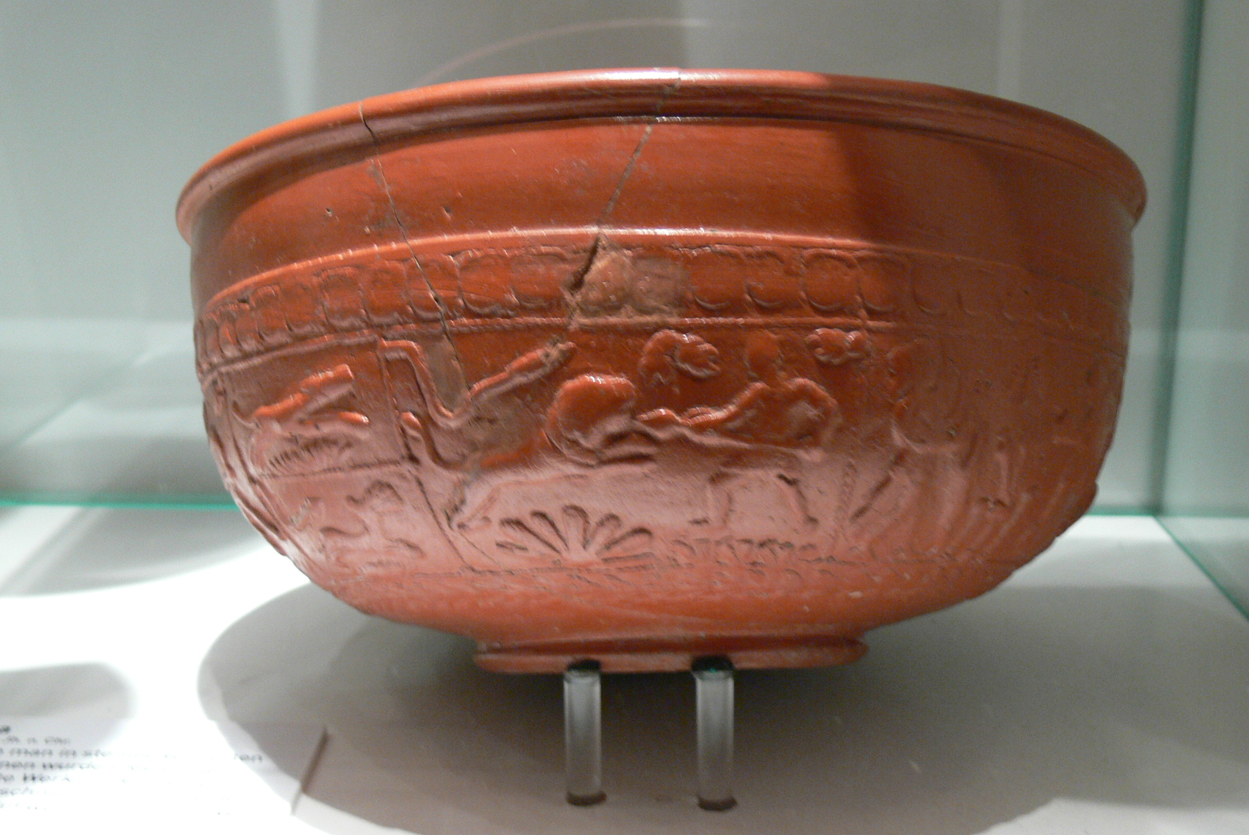 Roman Museum, Vienna. Decorated Terra sigilatta bowl ( 1st century ) from La Graufesenque ( France ).